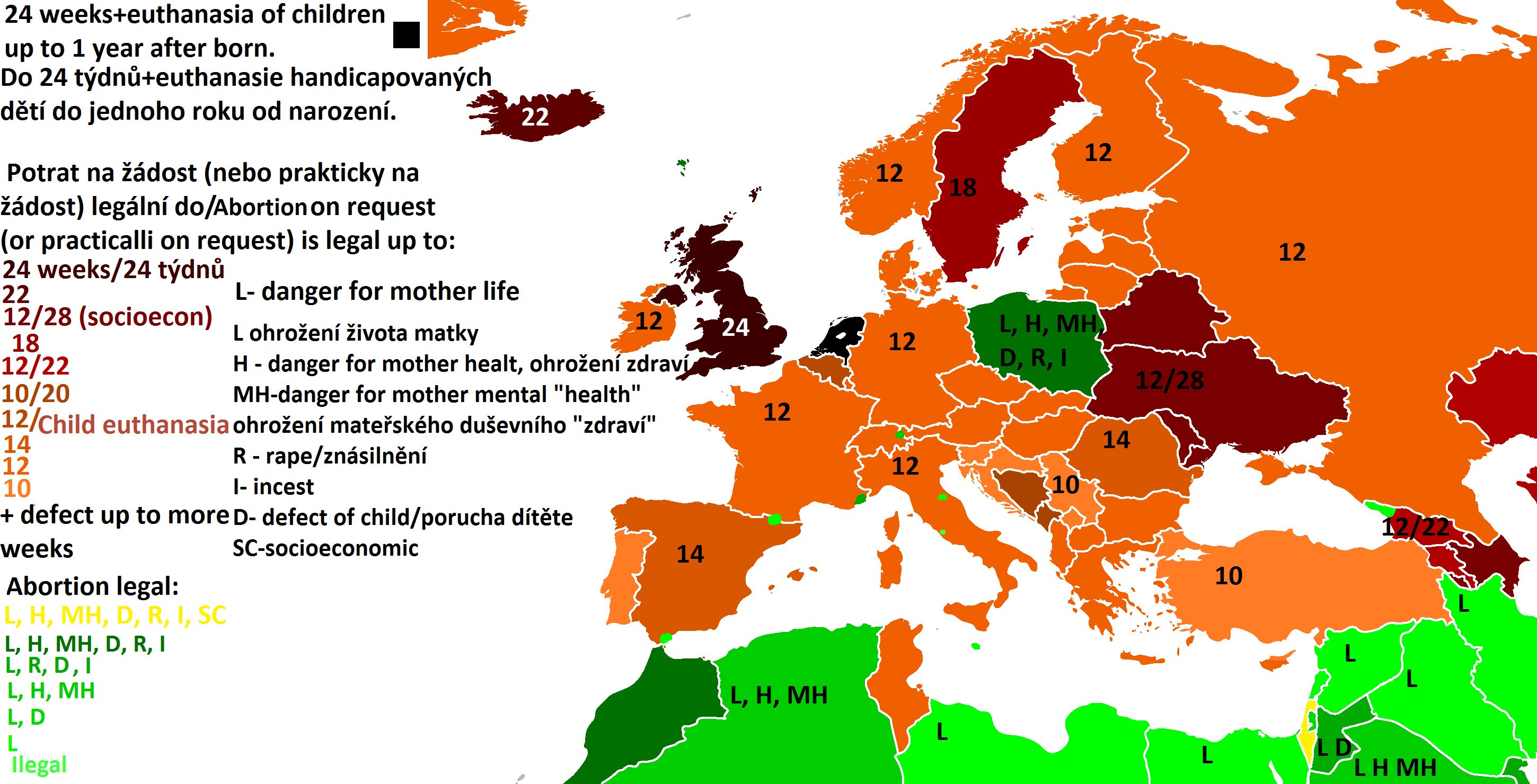 Weeks after conception.